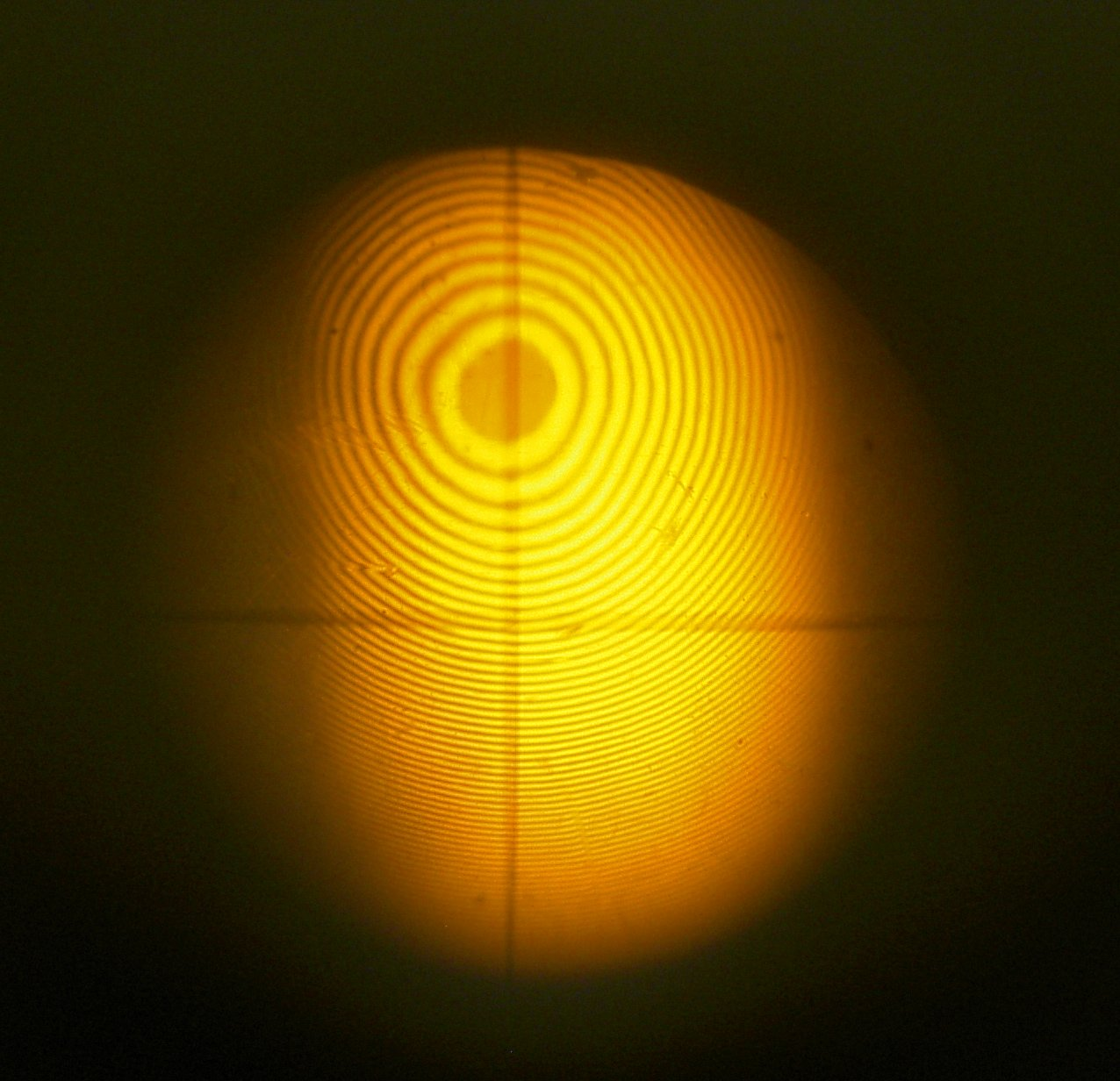 Newton Rings